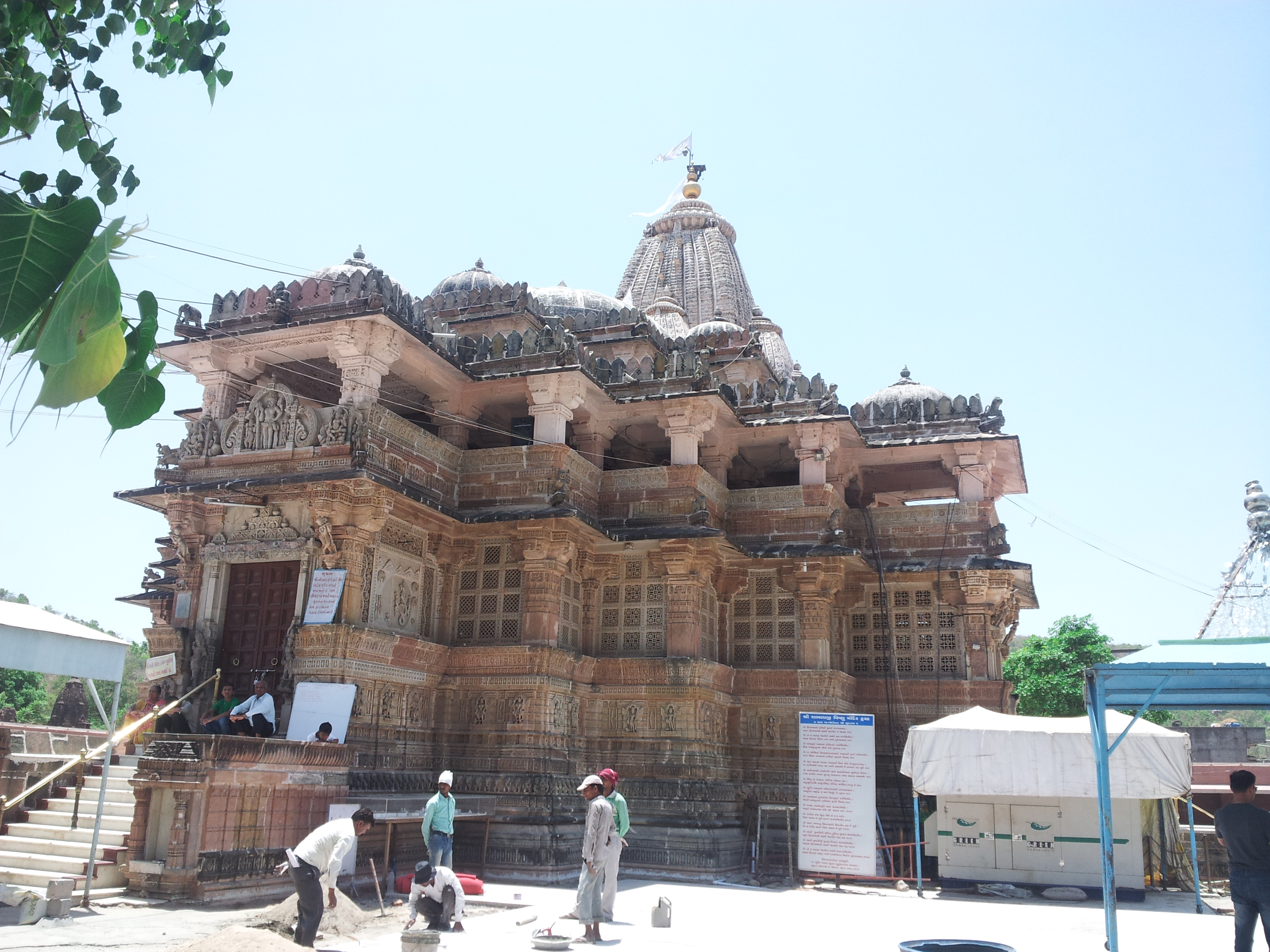 Shamlaji Temple side view